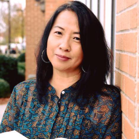 Author and professor Luisa A. Igloria